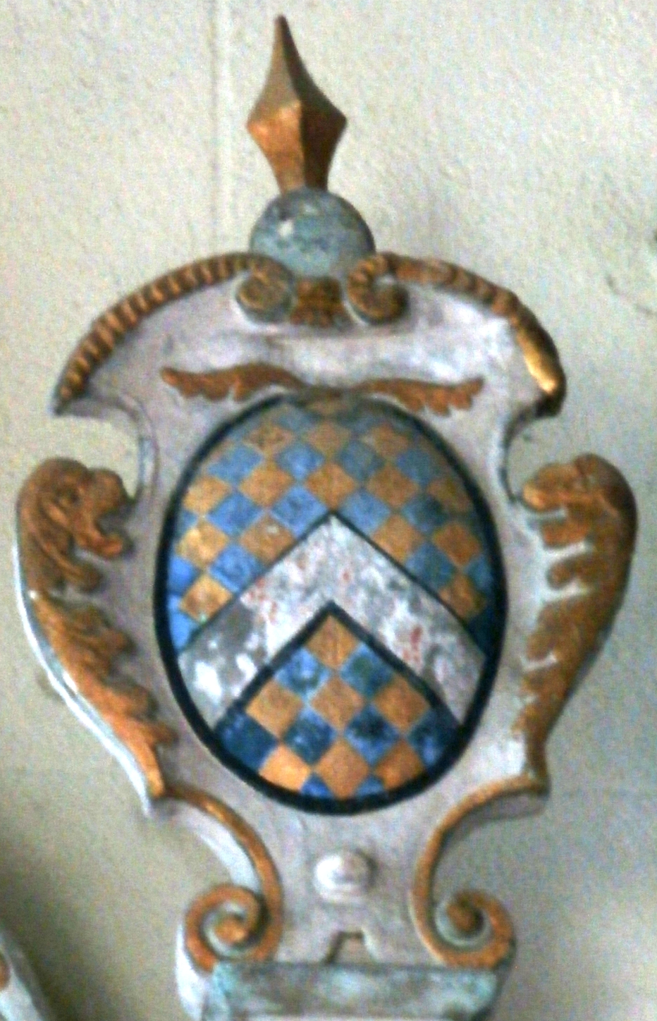 Arms of Gorges (modern): Lozengy or and azure, a chevron gules. Detail from mural monument to William II Cary (1576-1652), All Saints Church, Clovelly, Devon, referring to his 2nd wife Dorothy Gorges (d.1622), eldest daughter of Sir Edward Gorges of Wraxall, Somerset.